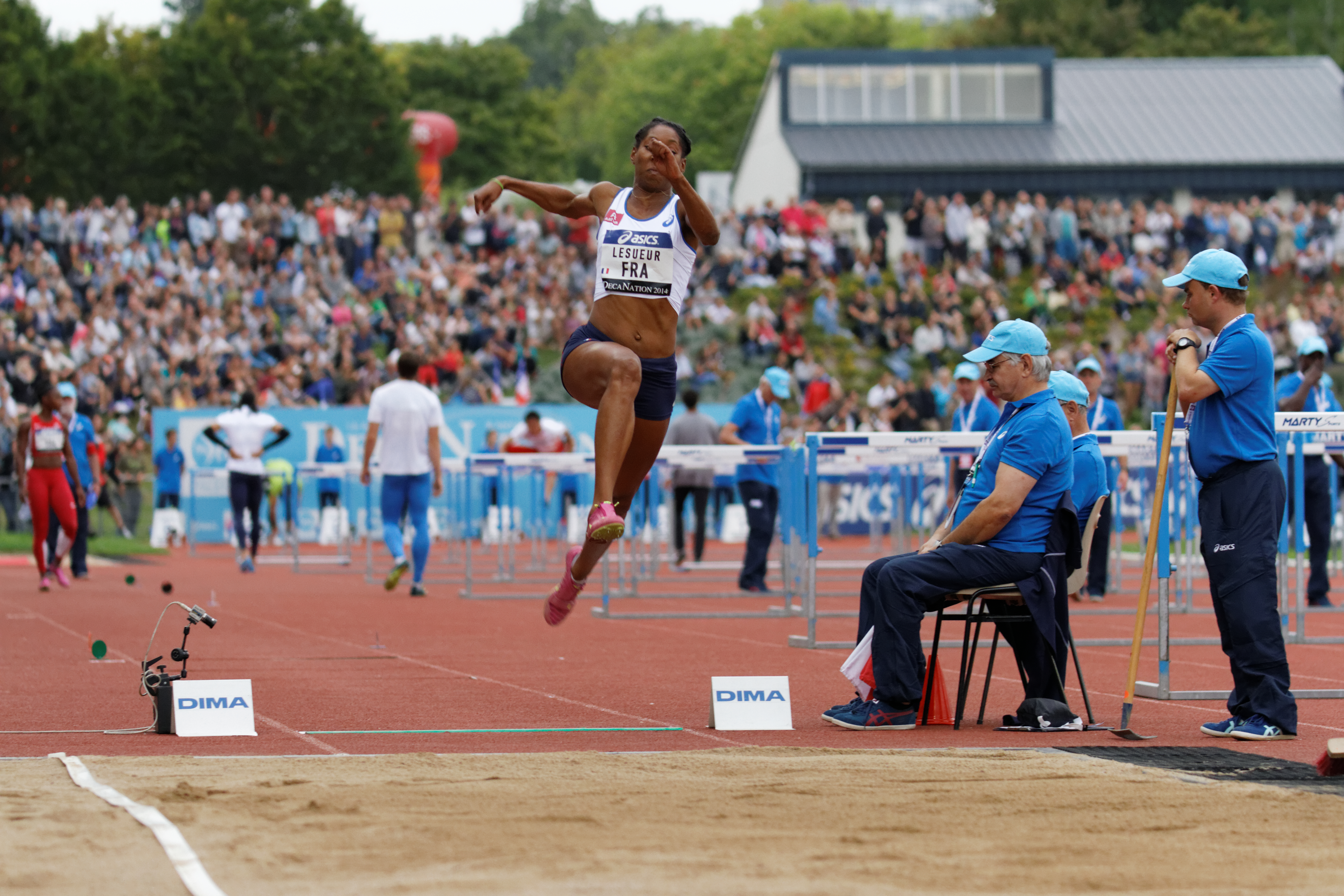 DécaNation 2014